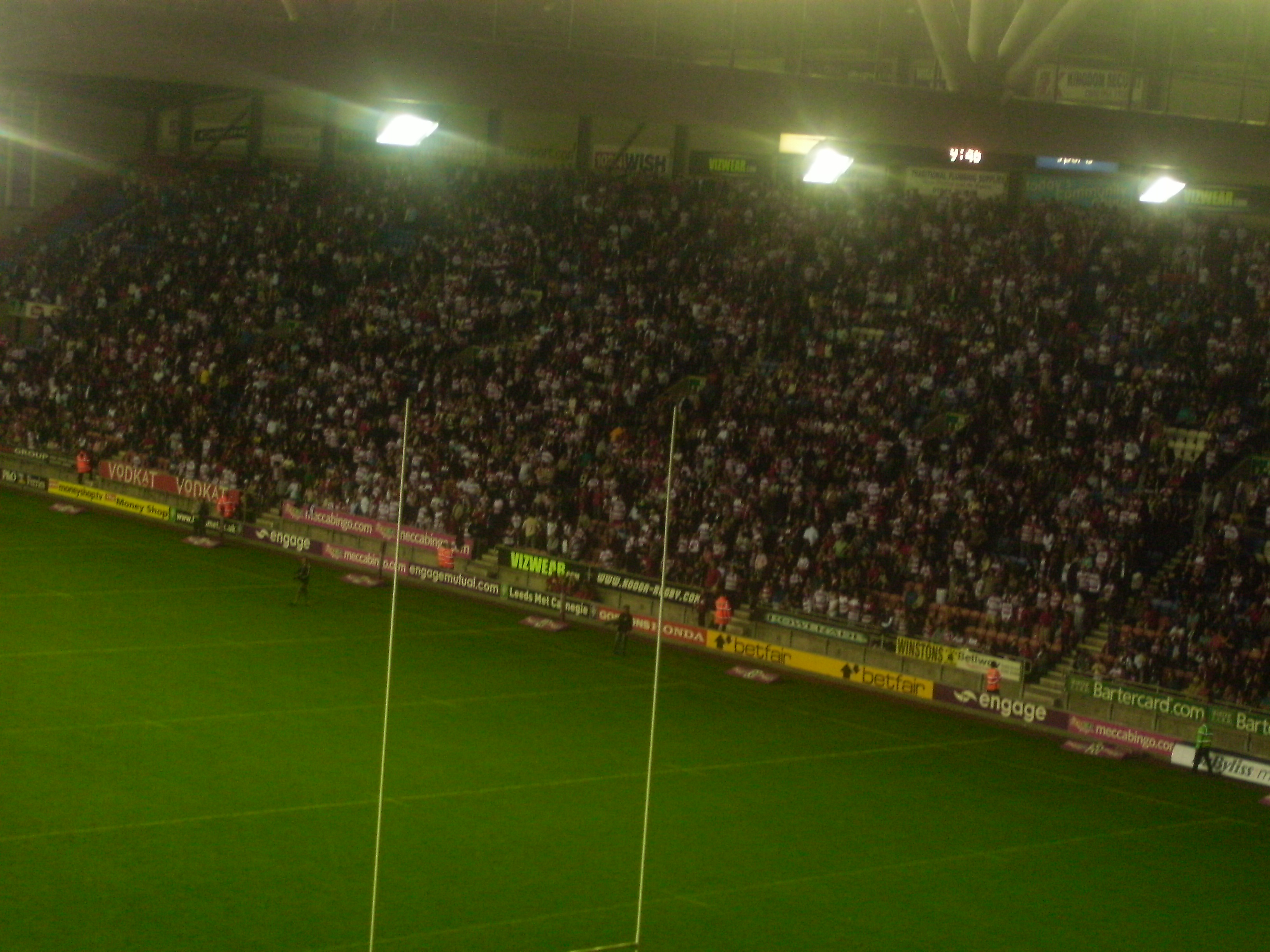 The eastern 'Boston Stand', as seen from the south stand of the JJB Stadium (DW Stadium as of August 2009). The stand contains Wigan Warriors fans, during a game against Leeds Rhinos in July 2009.